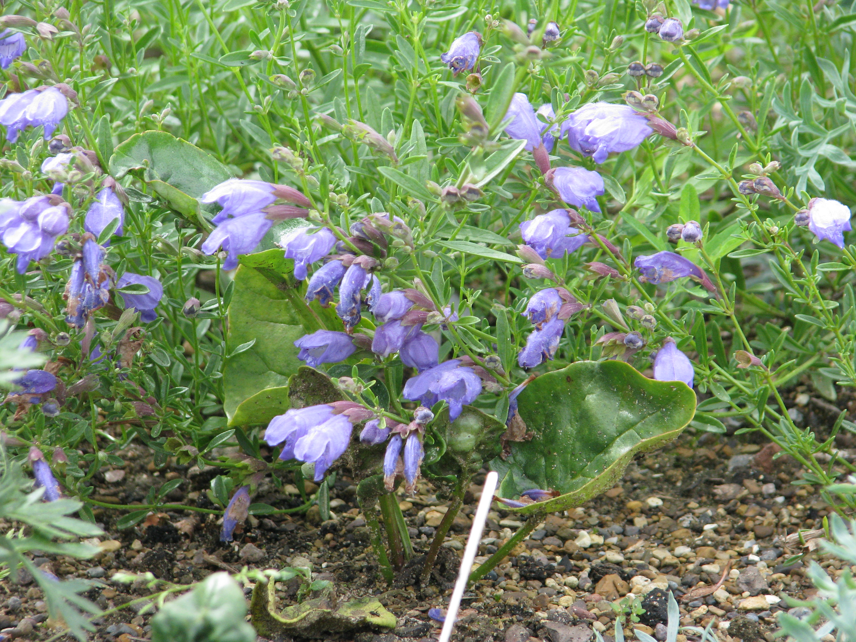 Dracocephalum forrestii